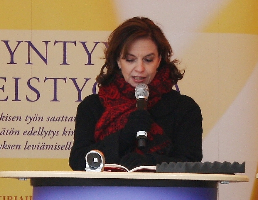 Finnish writer and poet Anna-Leena Härkönen reading her new book on World Book Day 2010 in Helsinki